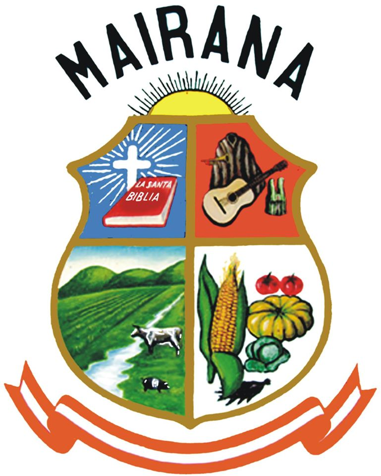 Coat of Mairana